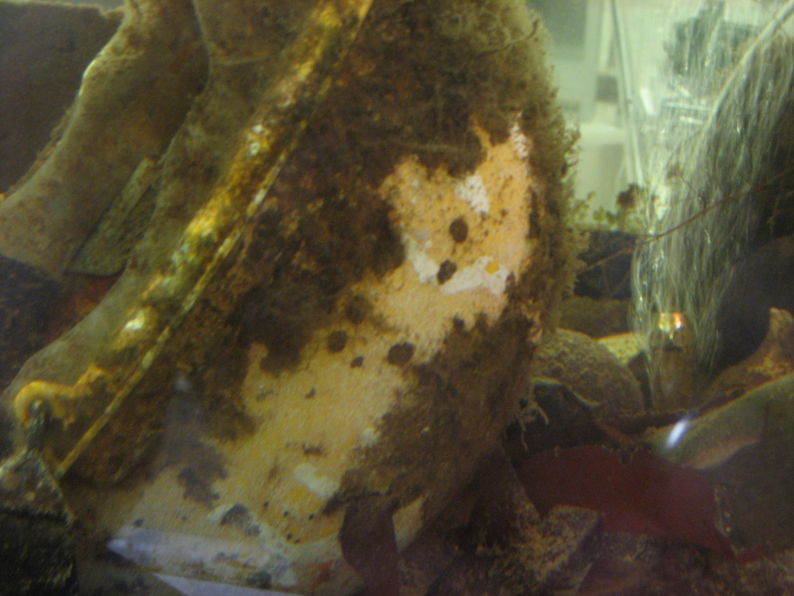 biofouling on a helmet in a fishtank in University of Akureyri